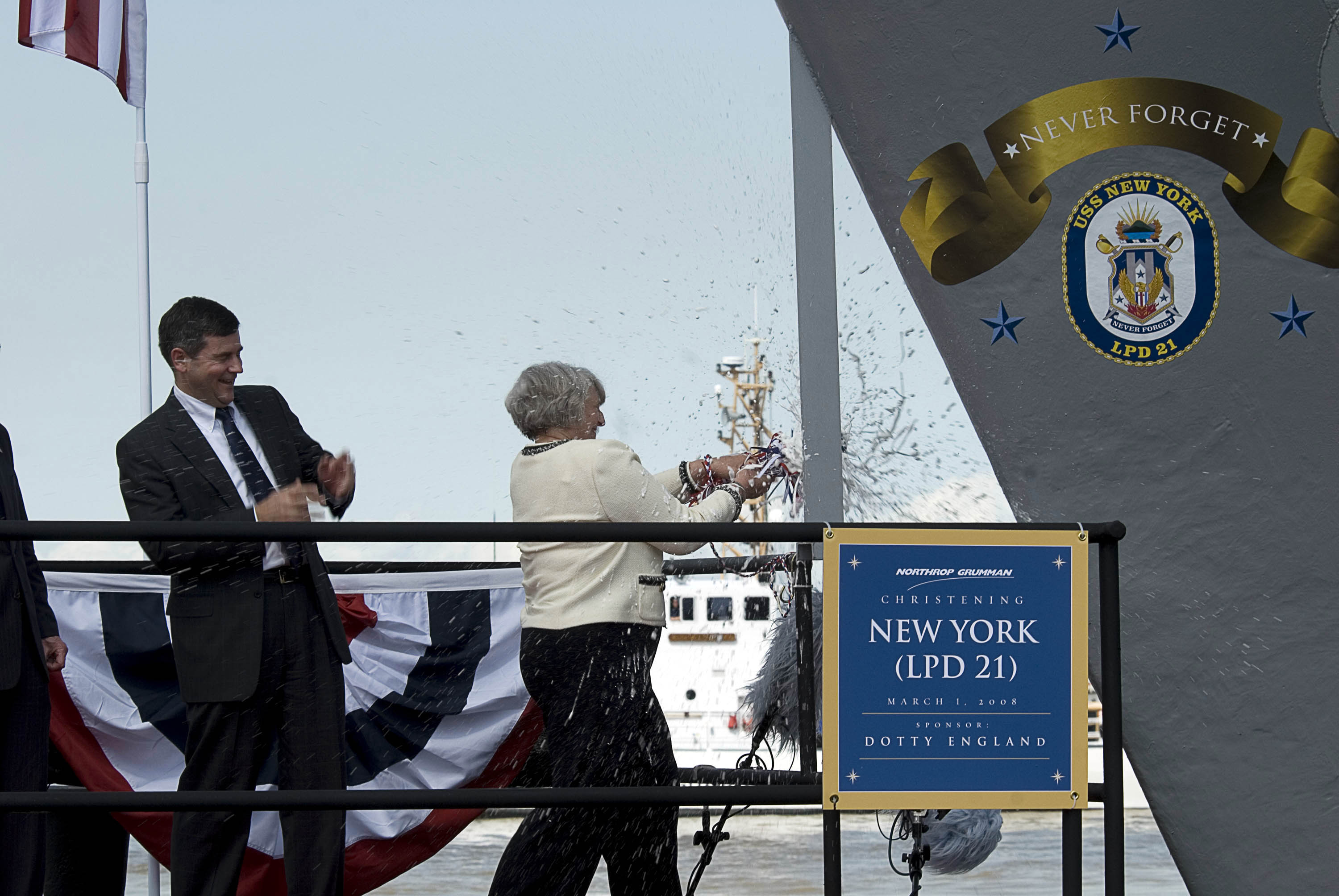 AVONDALE, La. (Mar. 1, 2008) Mrs. Dottty England, wife of Deputy Secretary of Defense The Hon. Gordon England, christens the amphibious transport dock Pre-Commissioning Unit New York (LPD 21) at Northrop Grumman Shipbuilding New Orleans. The bow of the New York is built with metal recovered from the World Trade Center site.